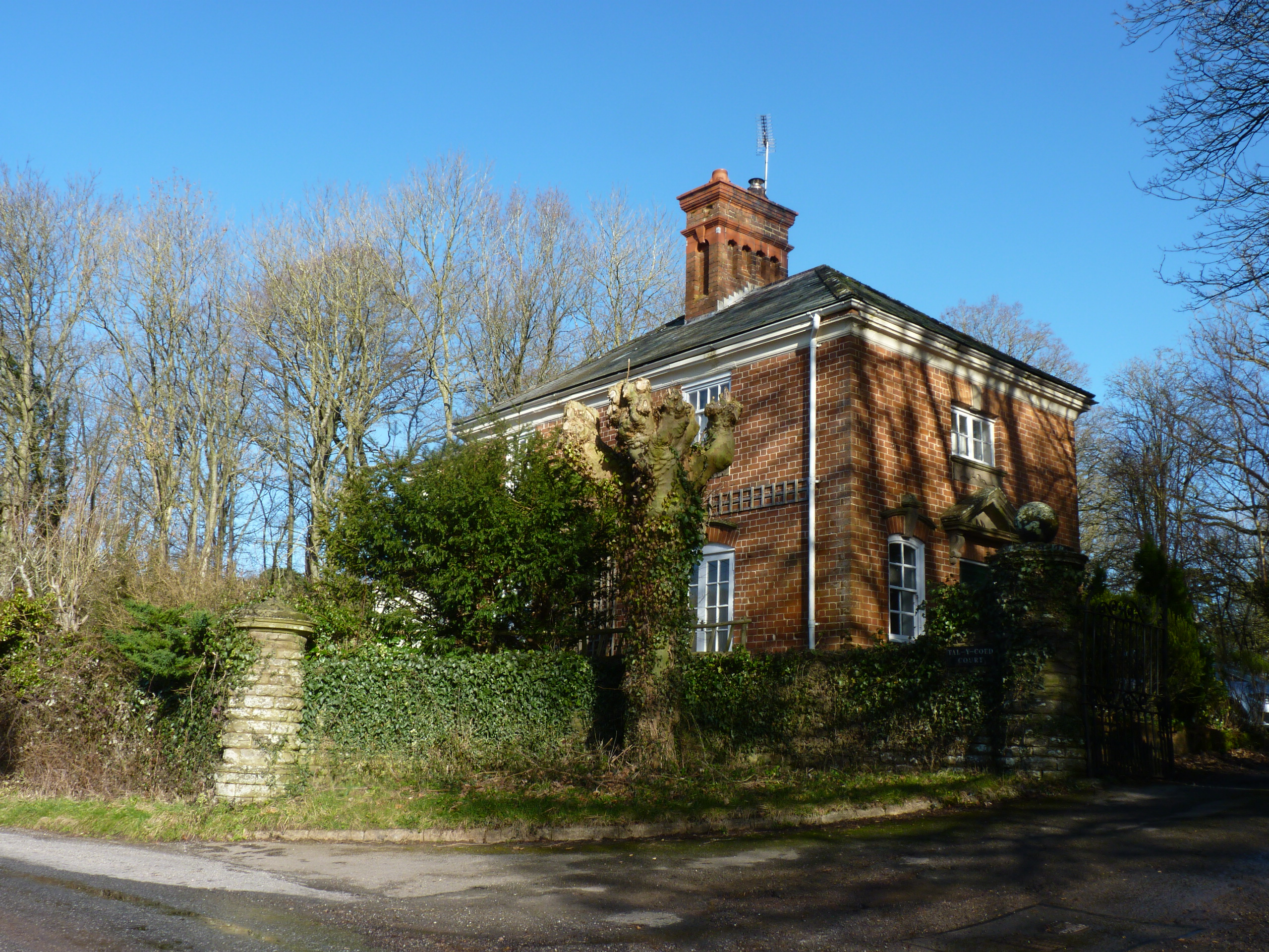 Dwelling at the entrance to Tal-y-coed Court